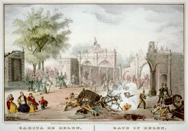 Title: Gate of Belen: Mexico, the 13th September, 1847 Garita de Belen: Mexico, el dia 13 de Septembre de 1847. Creator(s): N. Currier (Firm), Date Created/Published: New York : Published by N. Currier, c1848. Medium: 1 print : lithograph, hand-colored. Reproduction Number: LC-USZC2-2398 (color film copy slide) Call Number: PGA - Currier & Ives--Gate of Belen ... (A size) [P&P] Repository: Library of Congress Prints and Photographs Division Washington, D.C. 20540 USA Notes: Currier & Ives : a catalogue raisonné / compiled by Gale Research. Detroit, MI : Gale Research, c1983, no. 2411